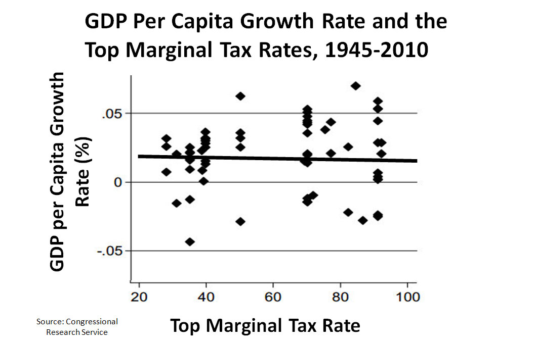 GDP per capita growth rate and the top marginal tax rates, 1945-2010 in the United States. Legend shows rate, not percent rate. Slope is -0.07, R2=0.08. Not shown is the data for 1946 which declined 21%. Revised data shows a 10% decline that year.